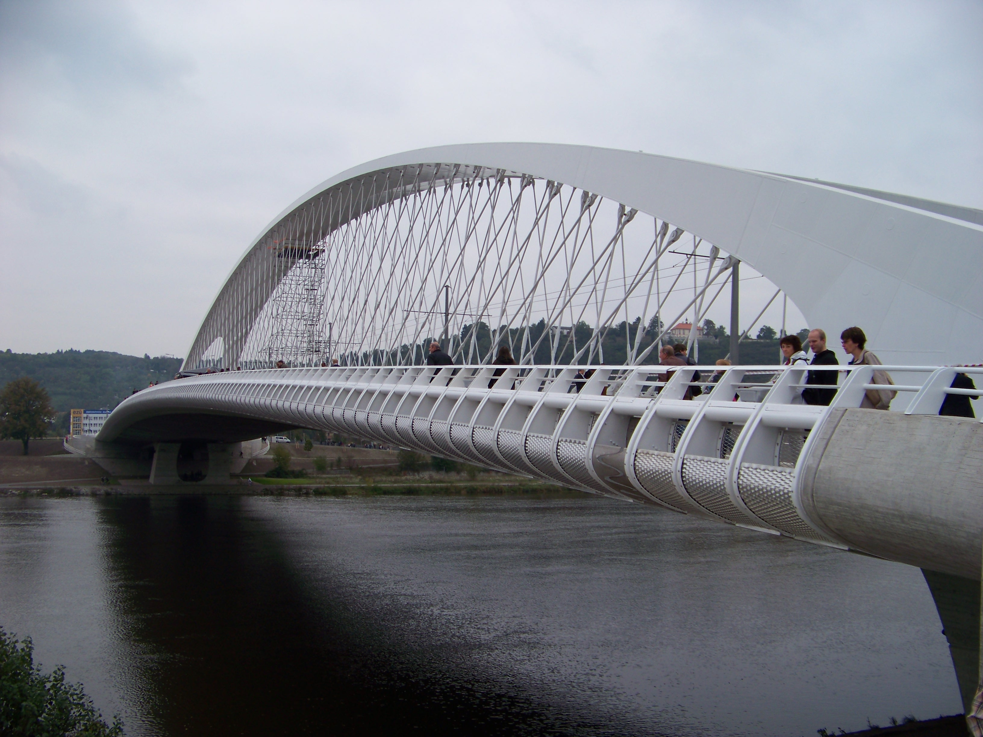 Prague-Holešovice, Czech Republic. Trojský most (Troja Bridge), a visiting day of the construction site.